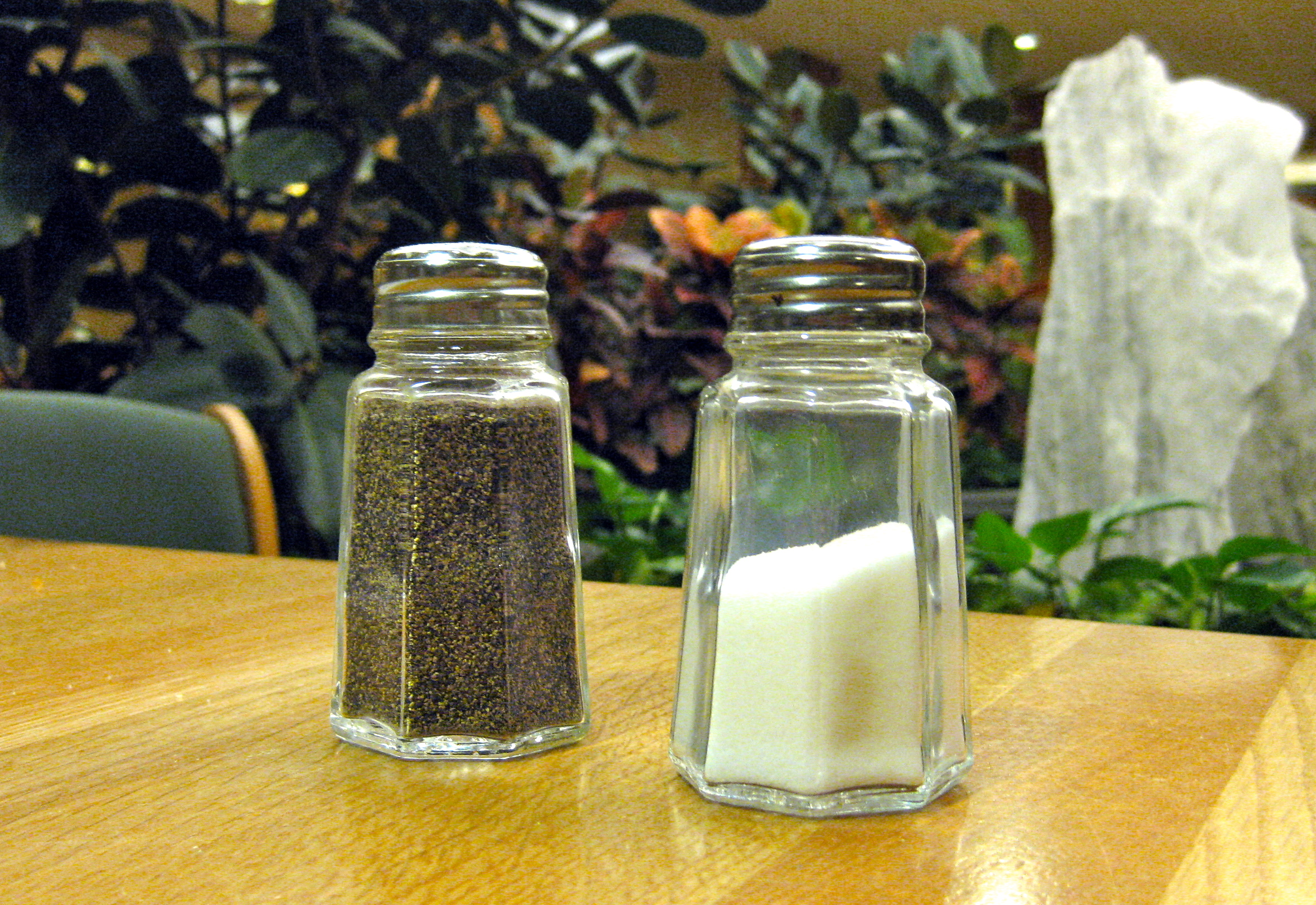 These salt and pepper shakers sit on a table in Currier House's dining hall at Harvard University